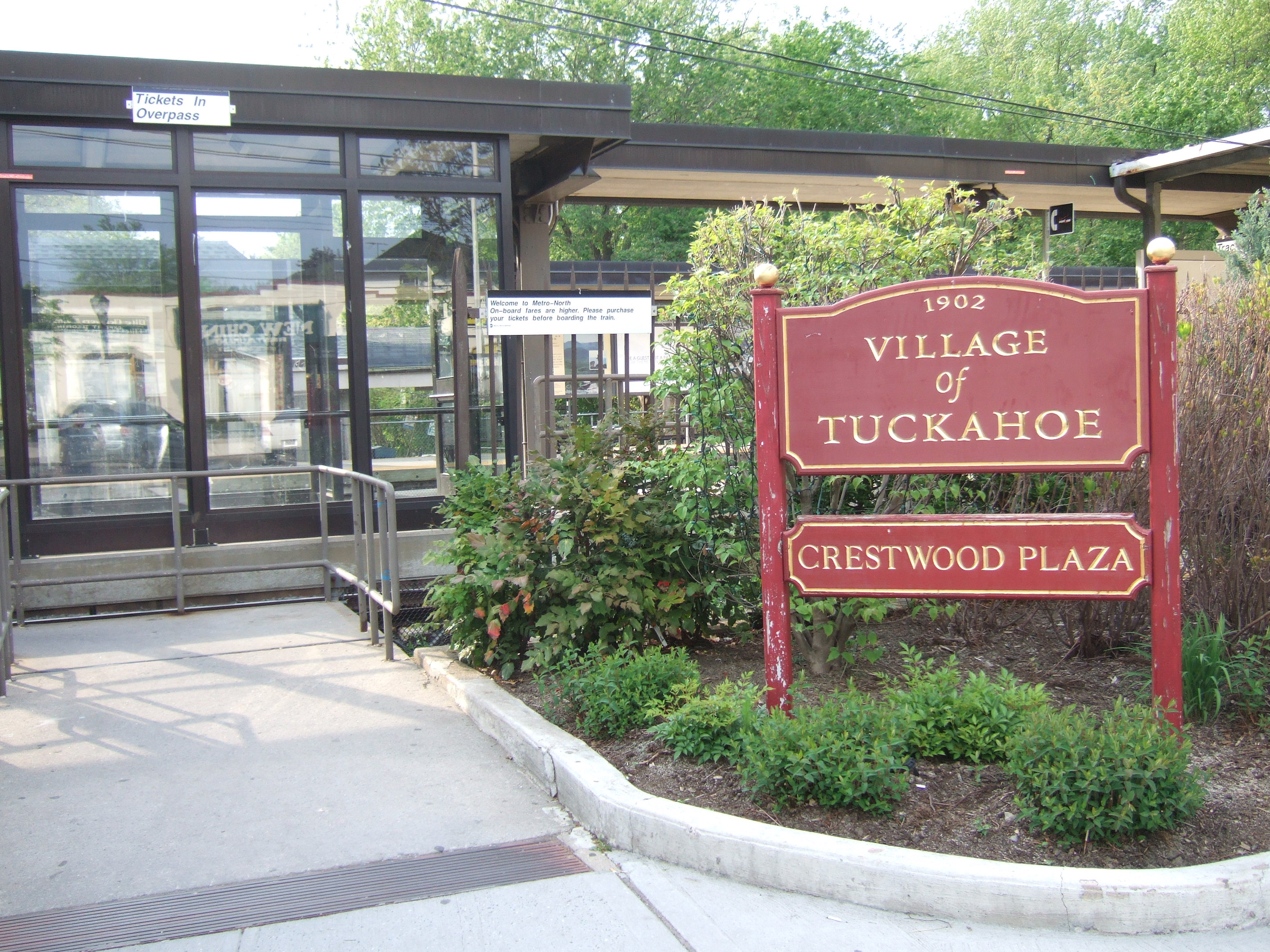 Taken May 2007.